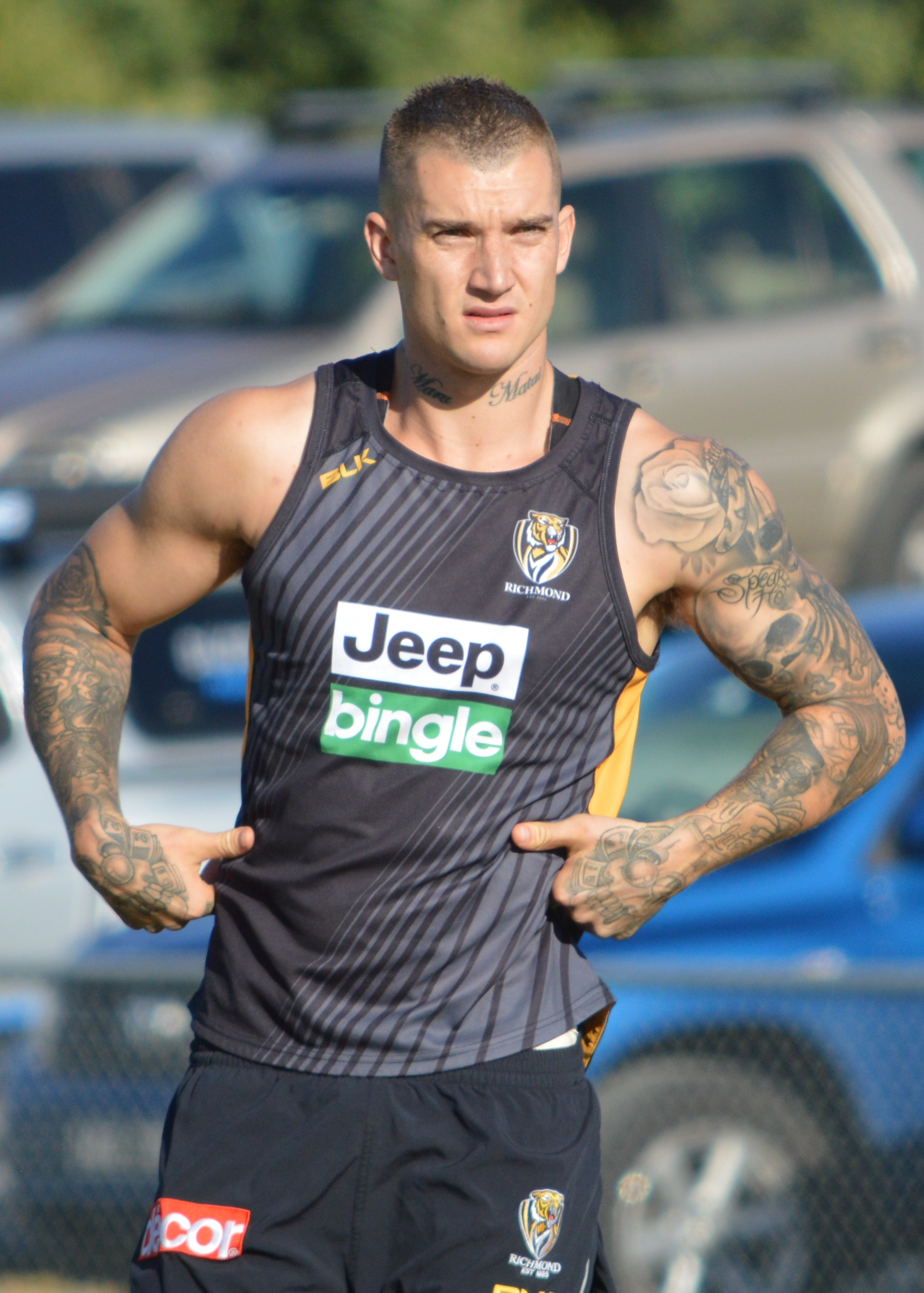 Dustin Martin at Richmond Football Club's family day in Beaconsfield Victoria on 20 December, 2016.